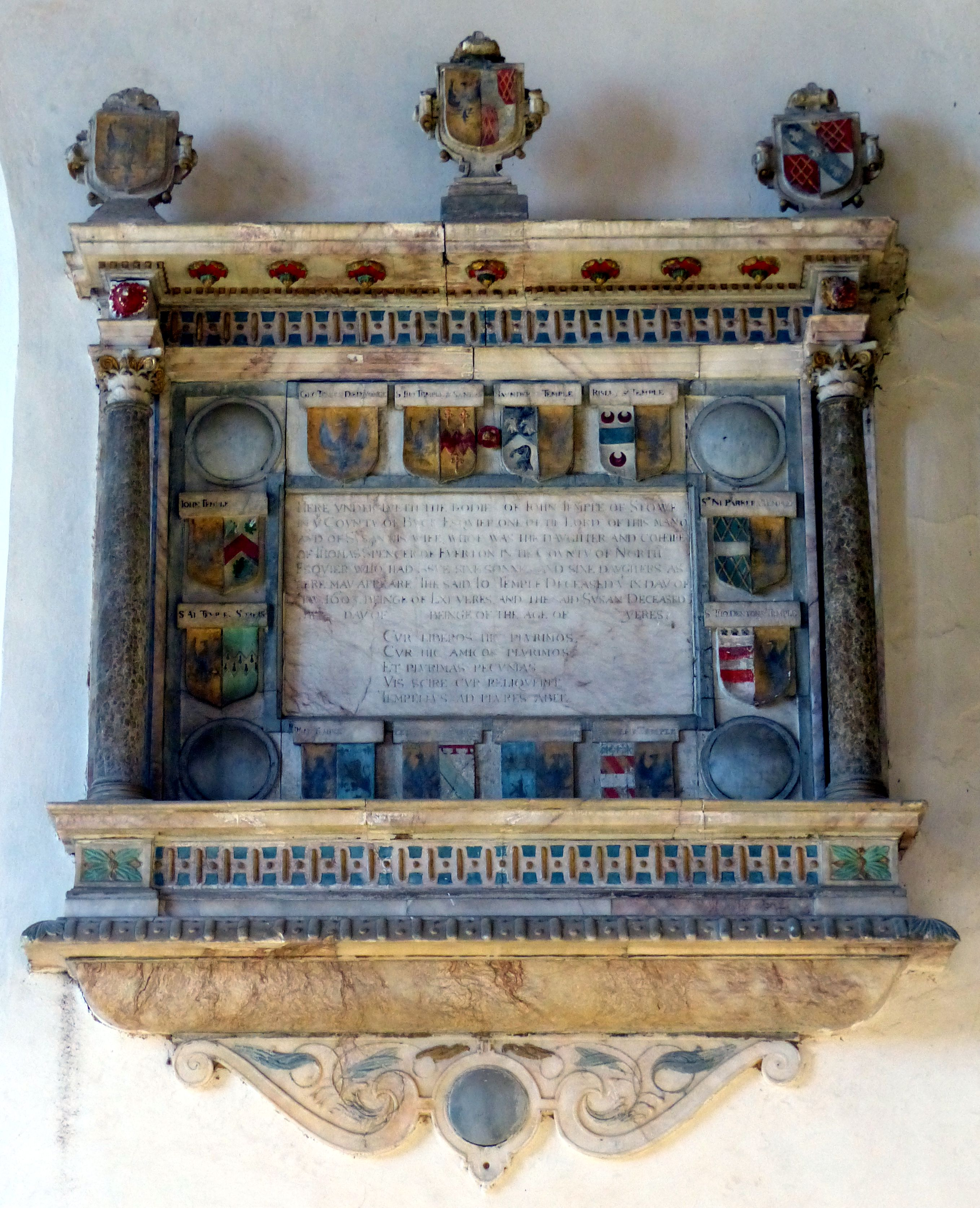 Wall-mounted monument to John Temple (died 1603) in the north transept of All Saints' parish church, Burton Dasset, Warwickshire